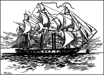 At Cochrane's insistence, Alvarez Condarco committed Chile to buy a 410 ton, 60 horsepower steam warship. The Admiral was so excited about the prospect of a ship that did not have to depend on the wind for its power that he contributed 15000 pesos out of his own pocket. The ship was christened the Rising Star. Cochrane's plan to sail her to Chile was never realized, however, because the ship-- the first steam warship ever built-- had not been properly designed and the boiler was too small to propel her. Since the miscalculation could not be easily remedied, Alvarez Condarco asked Cochrane to leave for Chile without delay, so that he could take immediate command of the squadron. The steamship would eventually reach Chile too late to participate in the struggle for Independence.